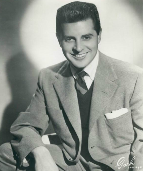 Publicity photo of singer Johnny Desmond.